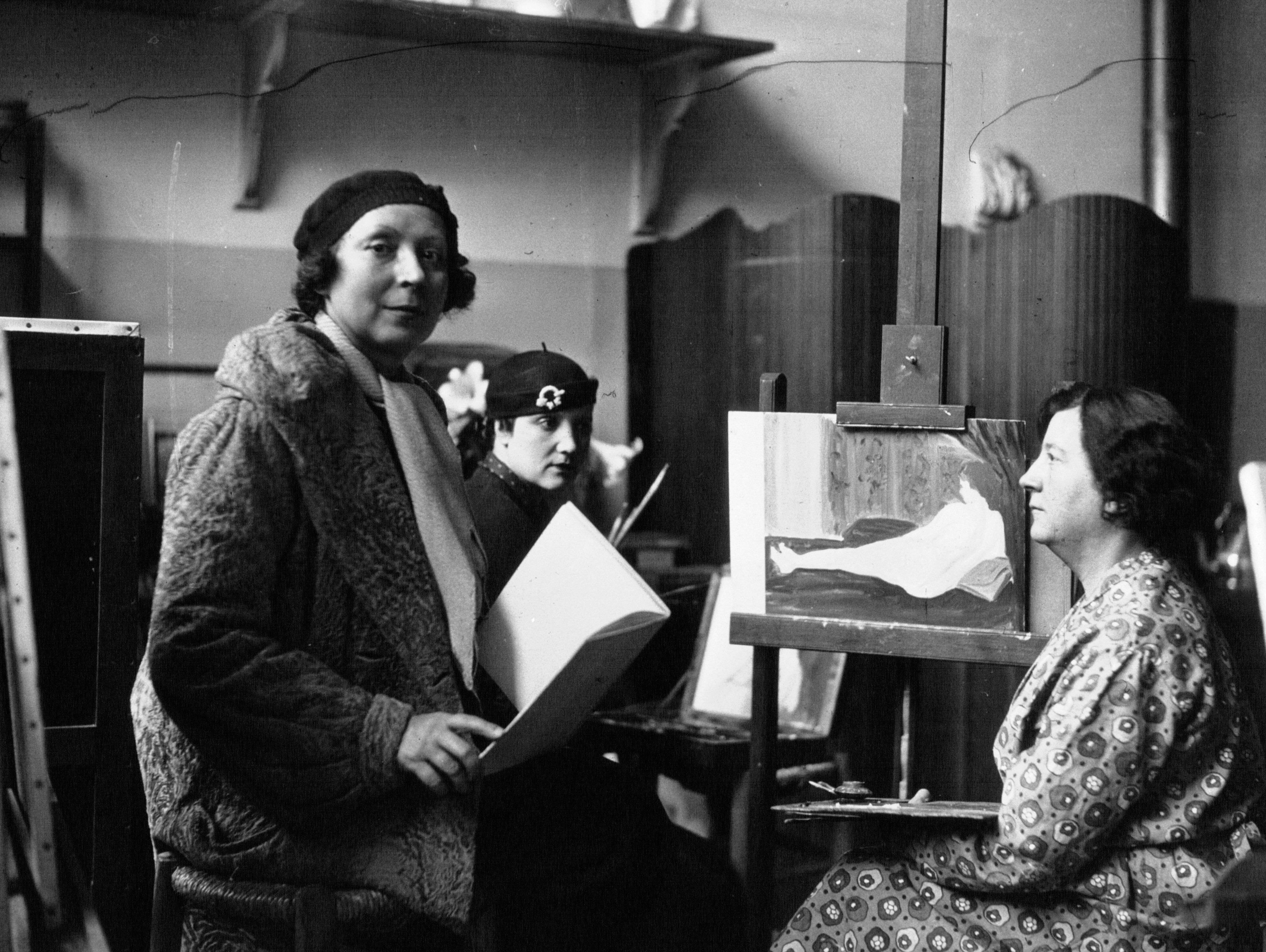 French painter Marie Laurencin (1853-1956) in her atelier in 1932.